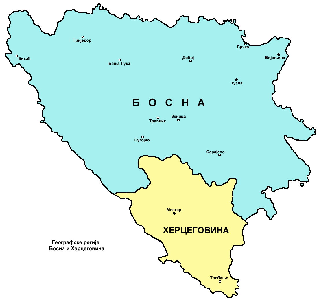 Geographical regions Bosnia and Herzegovina.